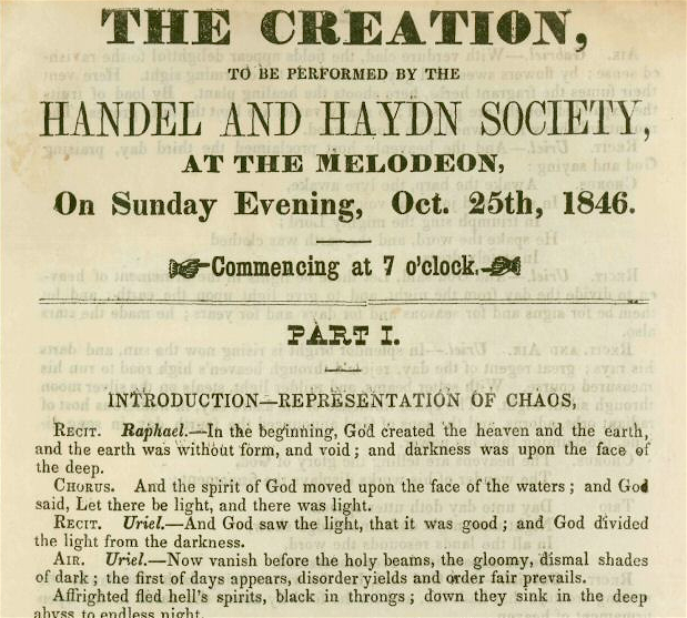 The Creation, to be performed by the Handel and Haydn Society, at the Melodeon, on Sunday evening, Oct. 25th, 1846.